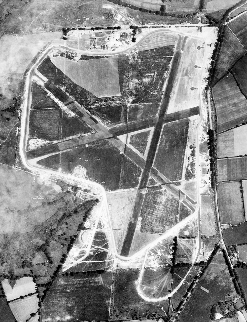 Aerial photograph of Churchstanton airfield, looking north, 26 June 1942. Note several fighter aircraft parked on the grassy areas. Photograph taken by No. 8 Operational Training Unit, sortie number RAF/FNO/16. English Heritage (RAF Photography). Locations